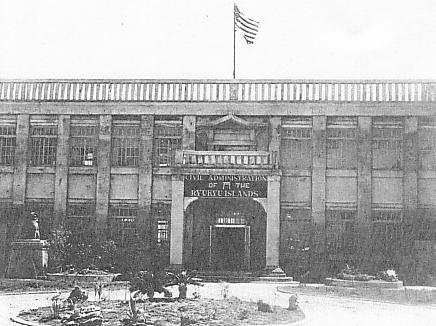 USCAR Building in 1950